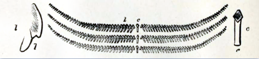 Three rows of the radula of Siphonaria; Siphonariidae